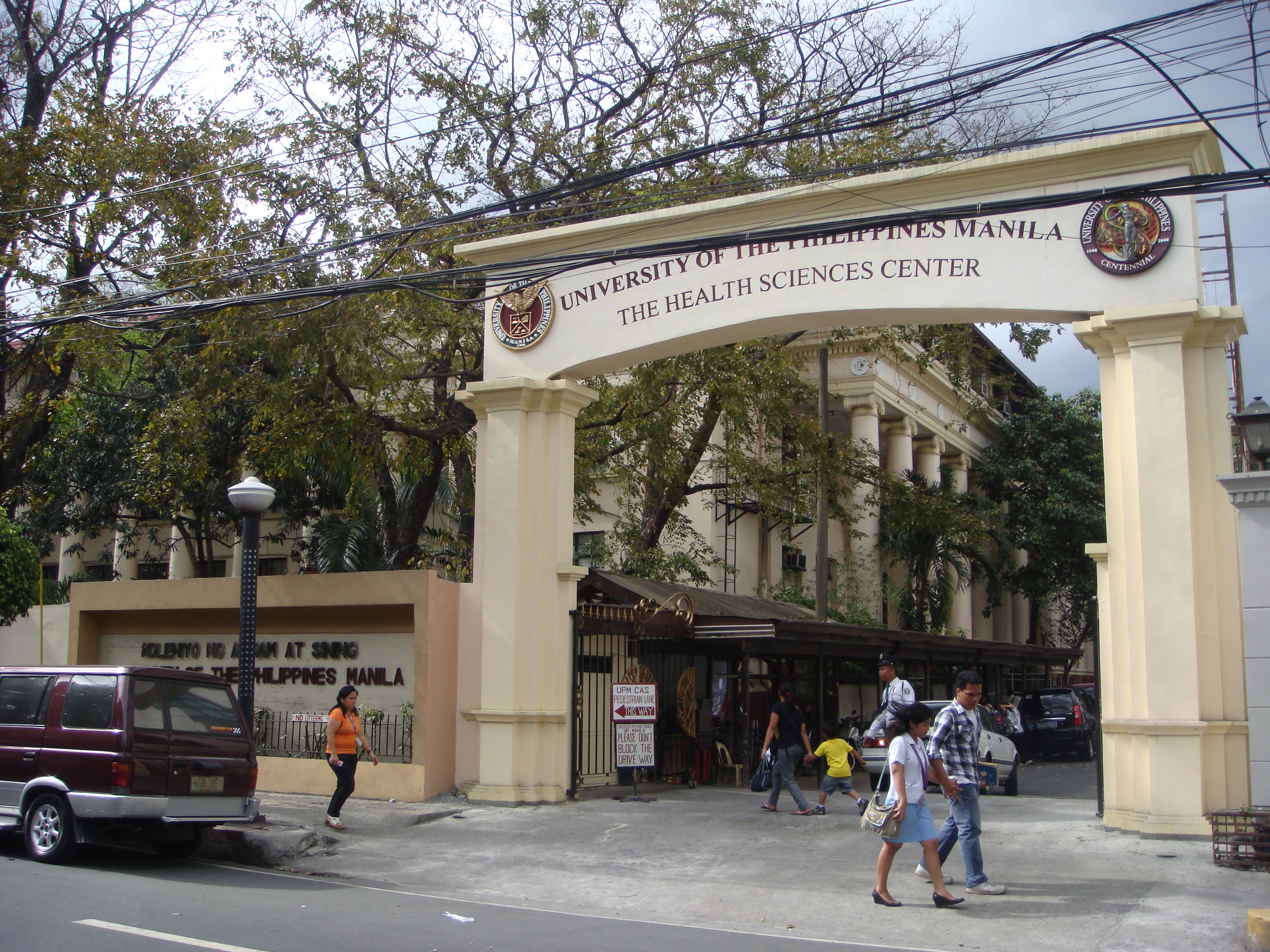 The Health Sciences Center, University of the Philippines Manila[1]